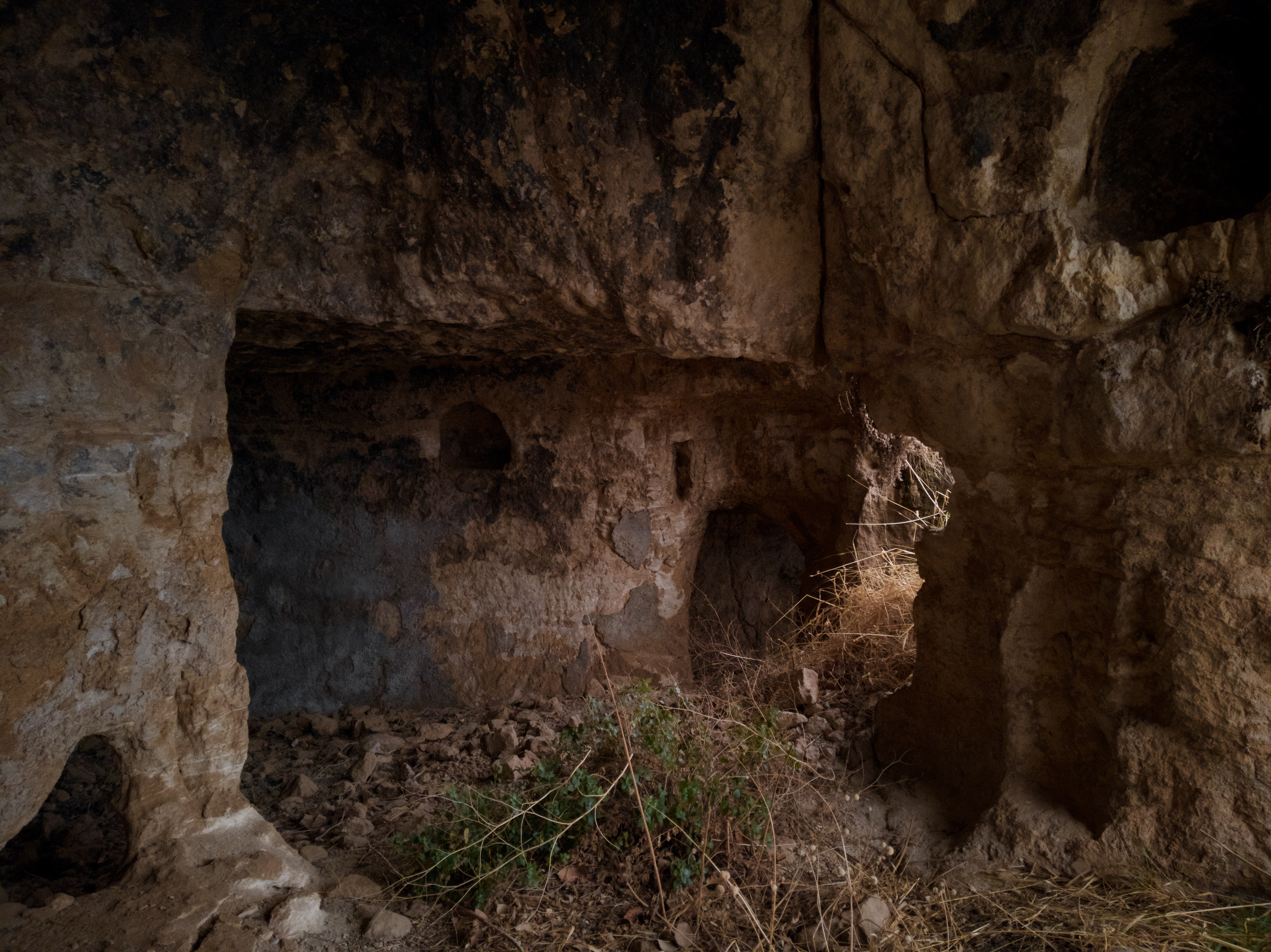 Chaldean Catholic monastery of Rabban Hormizd in alQosh, in the Nineveh Plains under administration of the Kurdistan Regional Government